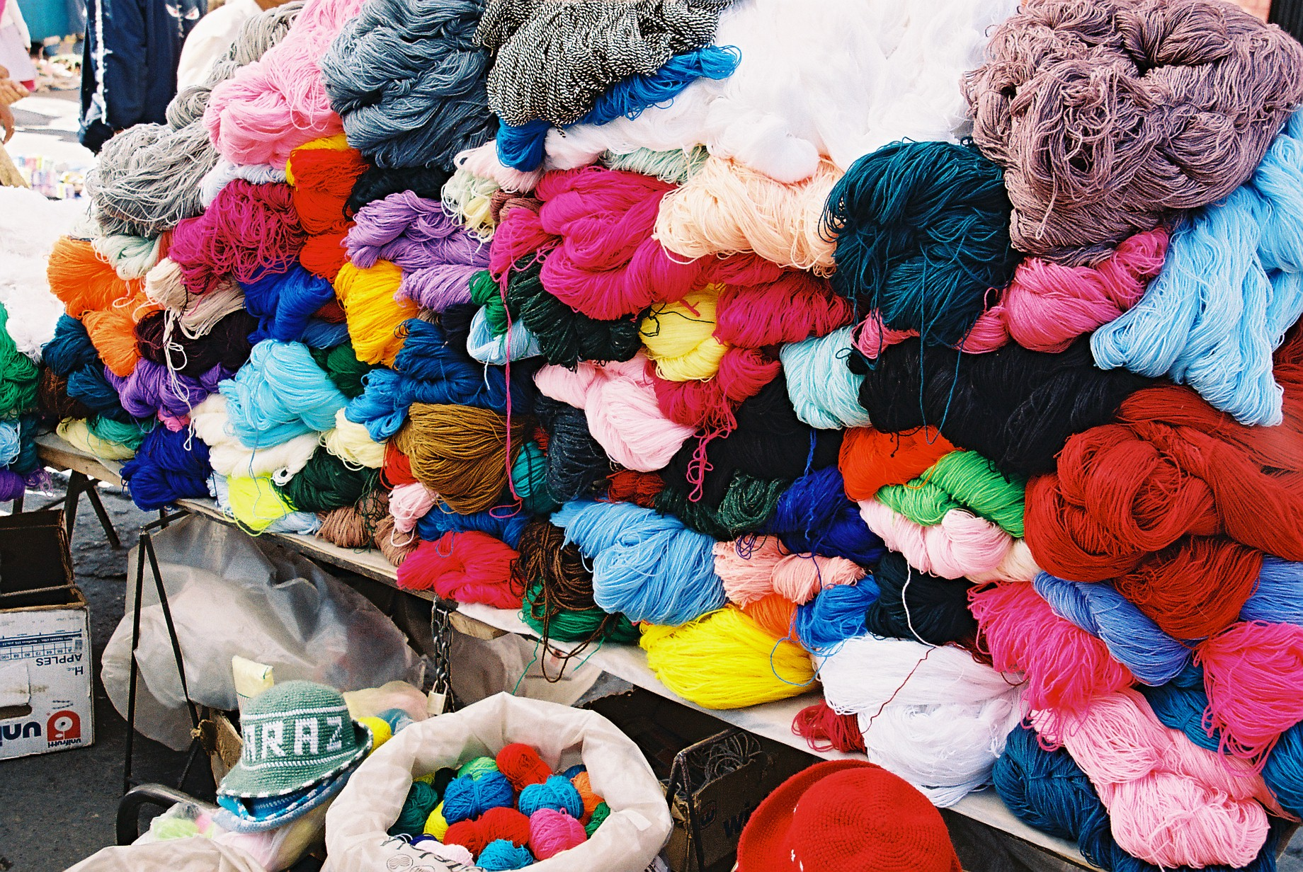 Wool at the market in Caraz/Huaylas/Ancash, Peru